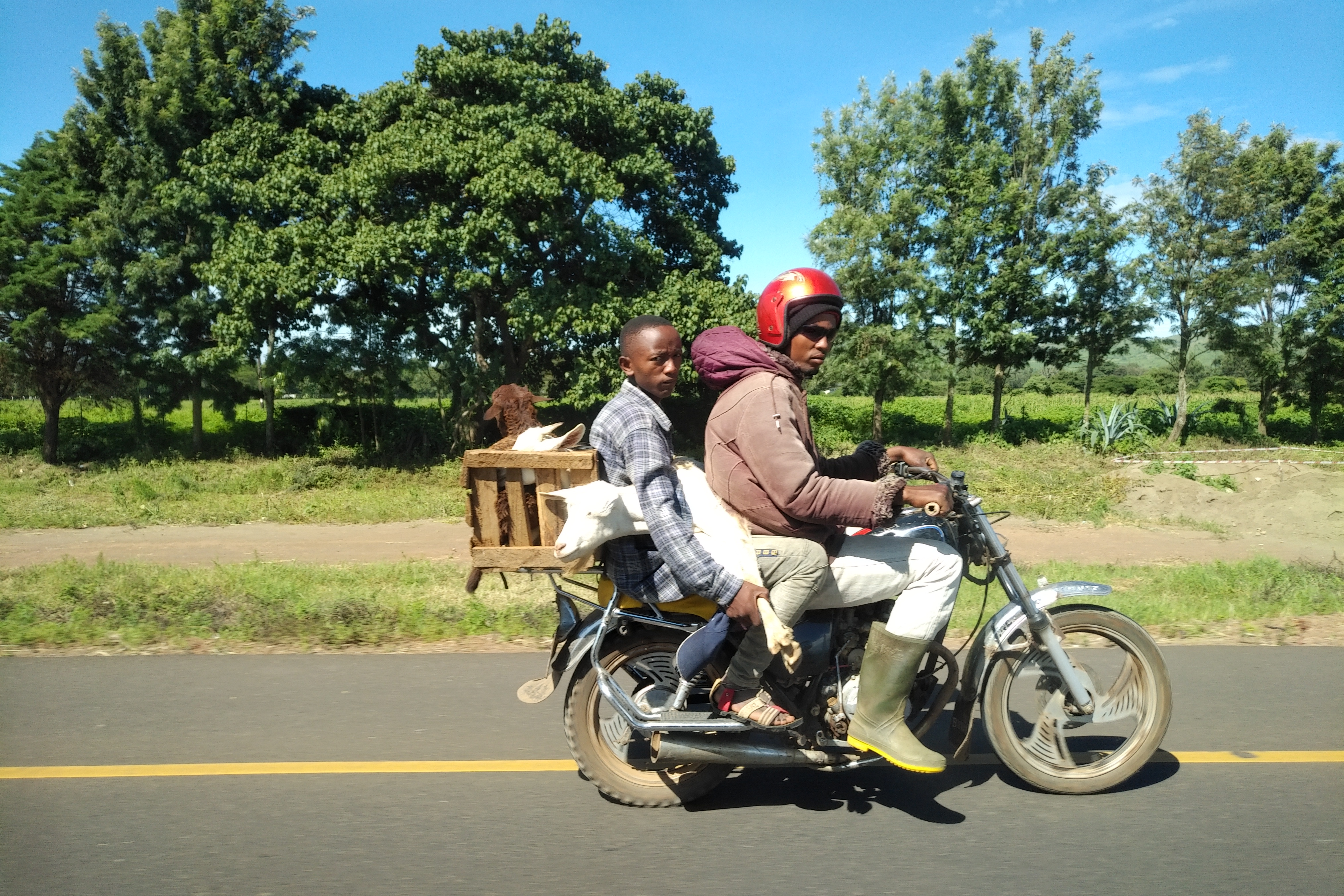 Where there is a will, there is a way! Farmers in Arusha, Tanzania are taking their livestock to market using a motorcycle. This photo has been taken in the country: Tanzania